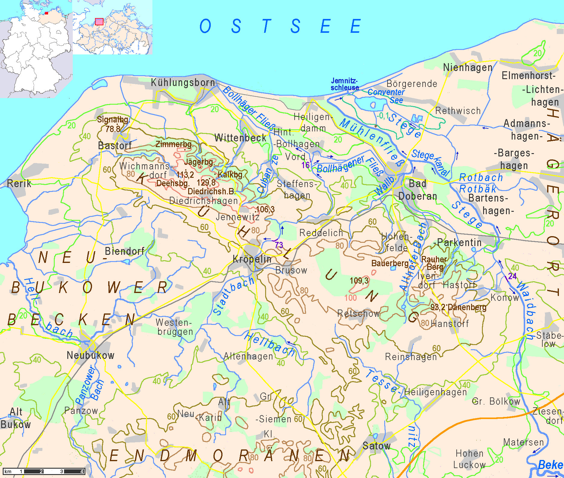 topographic map of Kühlung hills in Landkreis Rostock